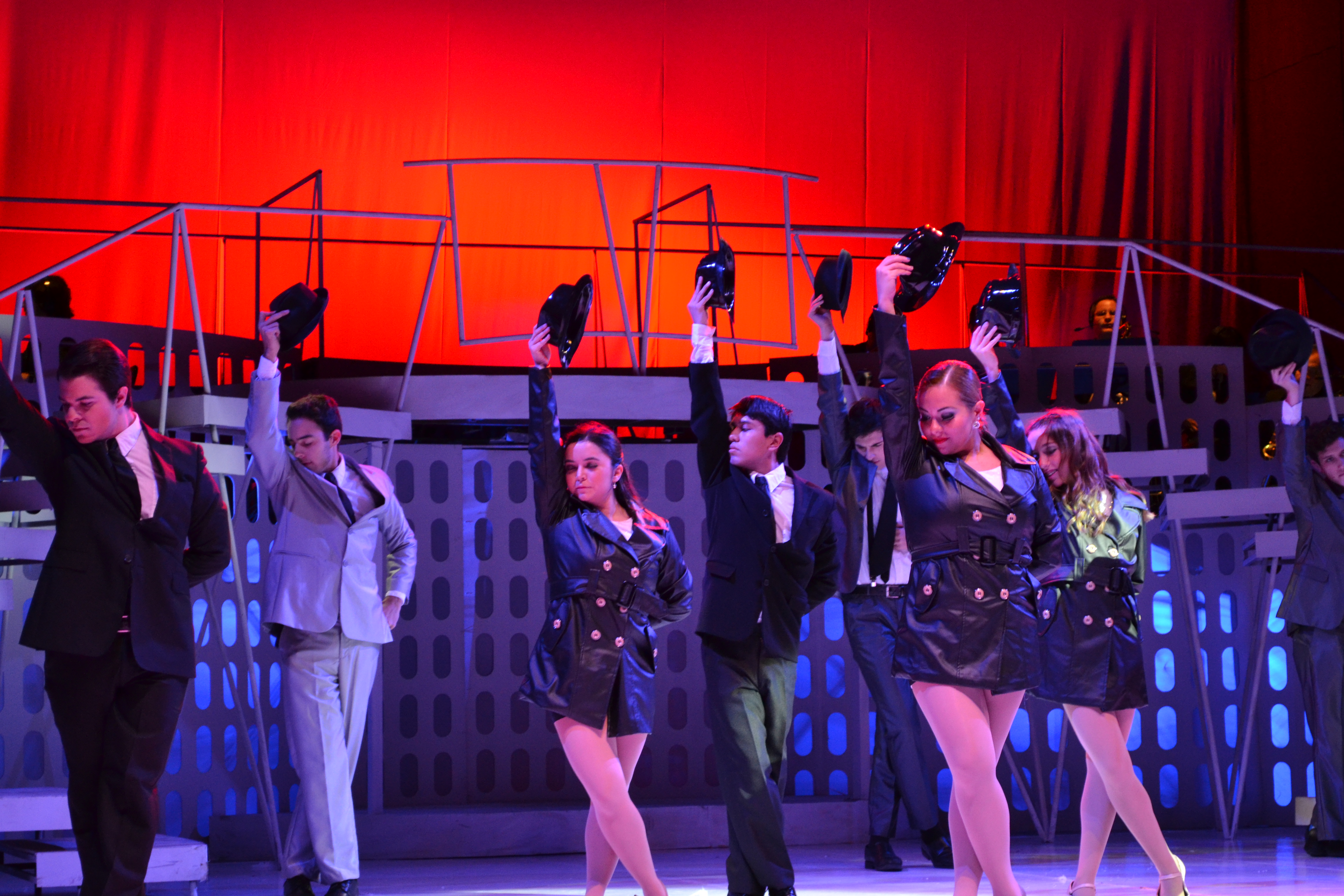 Comedia musical